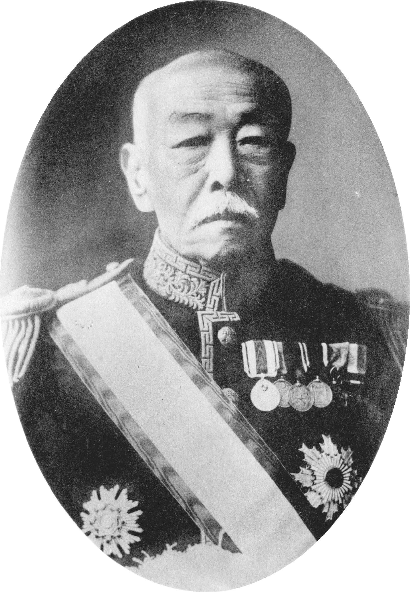 Ikeda Kensai, Rector of the Department of Medicine at Tokyo University.